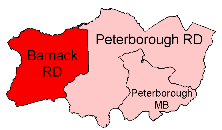 Barnack Rural District, shown within the Soke of Peterborough. All boundaries shown are correct for the period between 1933 and 1956, and with minor changes to 1974. Thorney RD was added to the Soke in 1965.